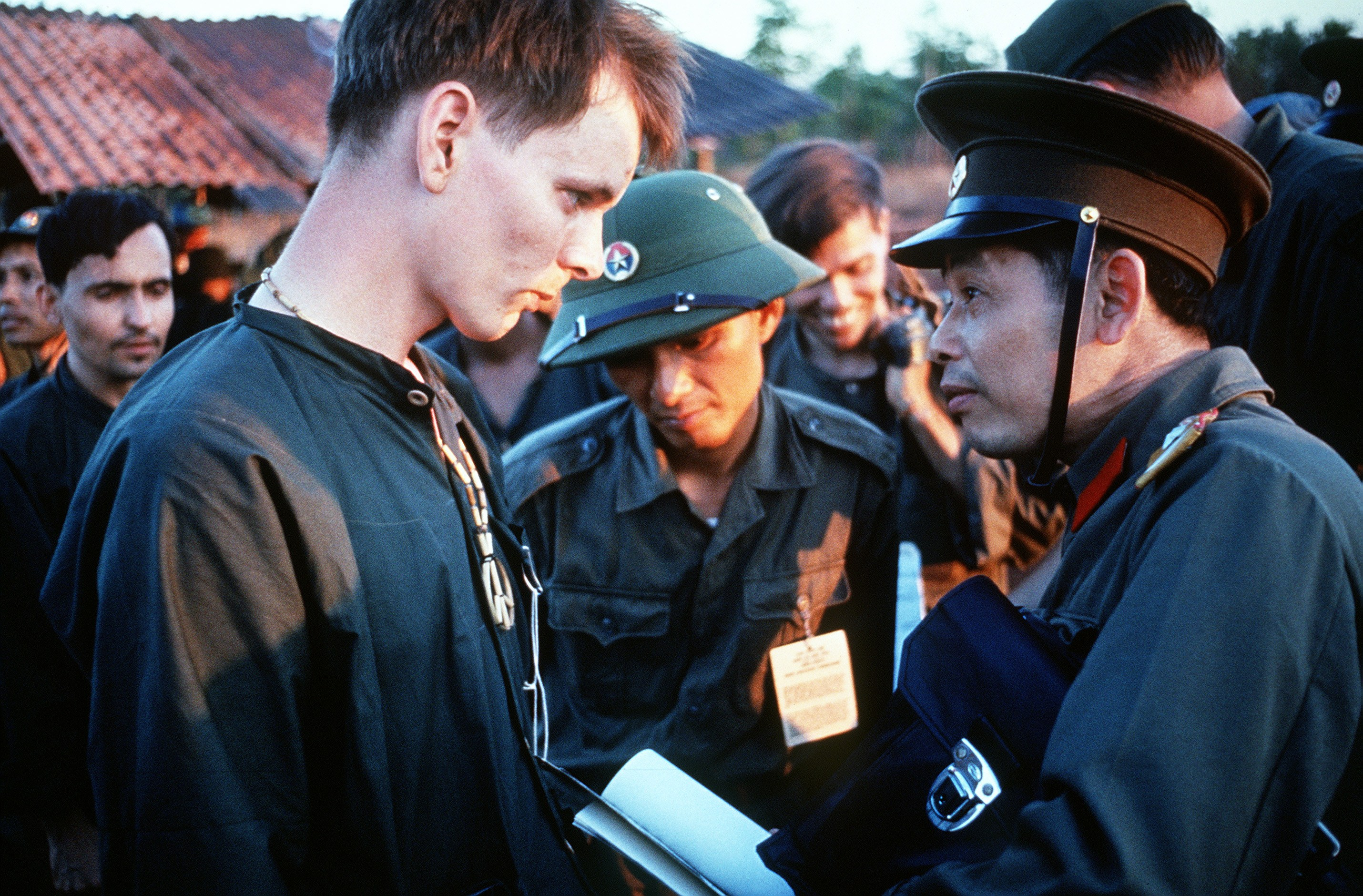 US POWs and NVA officers during Vietnam War, 1973